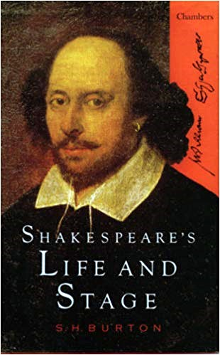 Shakespeare's Life and Stage by S. H. Burton. Book cover based on the 17th-century Chandos portrait. Rest of cover too simple for copyright protection.